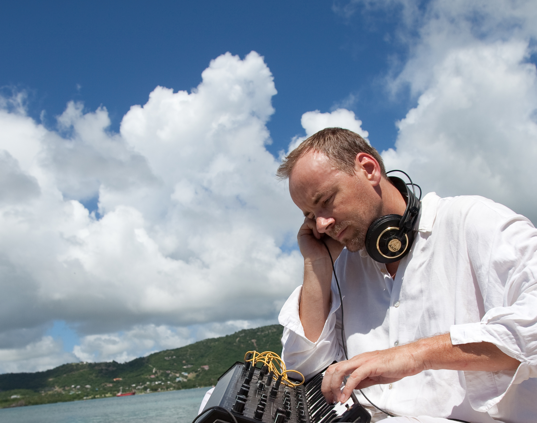 Torsten Stenzel, shot made by Alexis Andrews